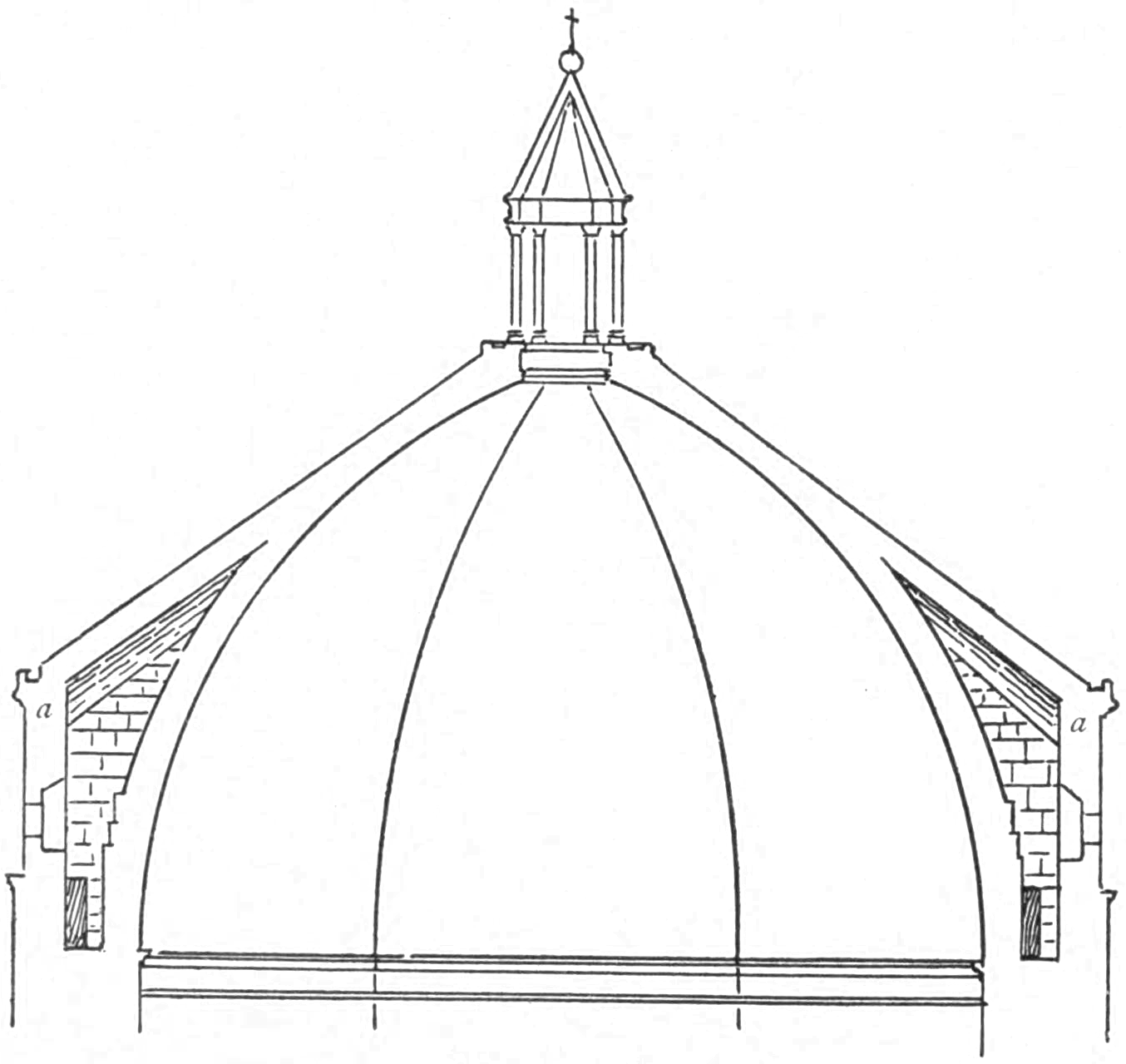 Section of Baptistery, Floraence Cathedral, figure, 4 from "Character of Renaissance Architecture"